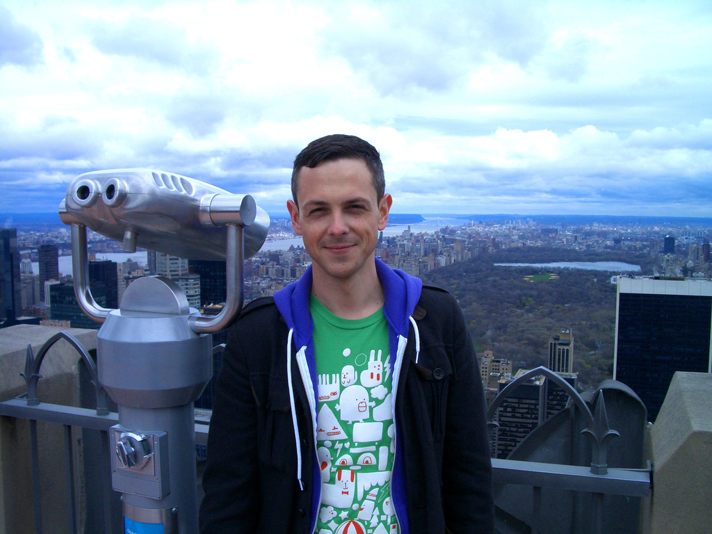 Tony Moorey